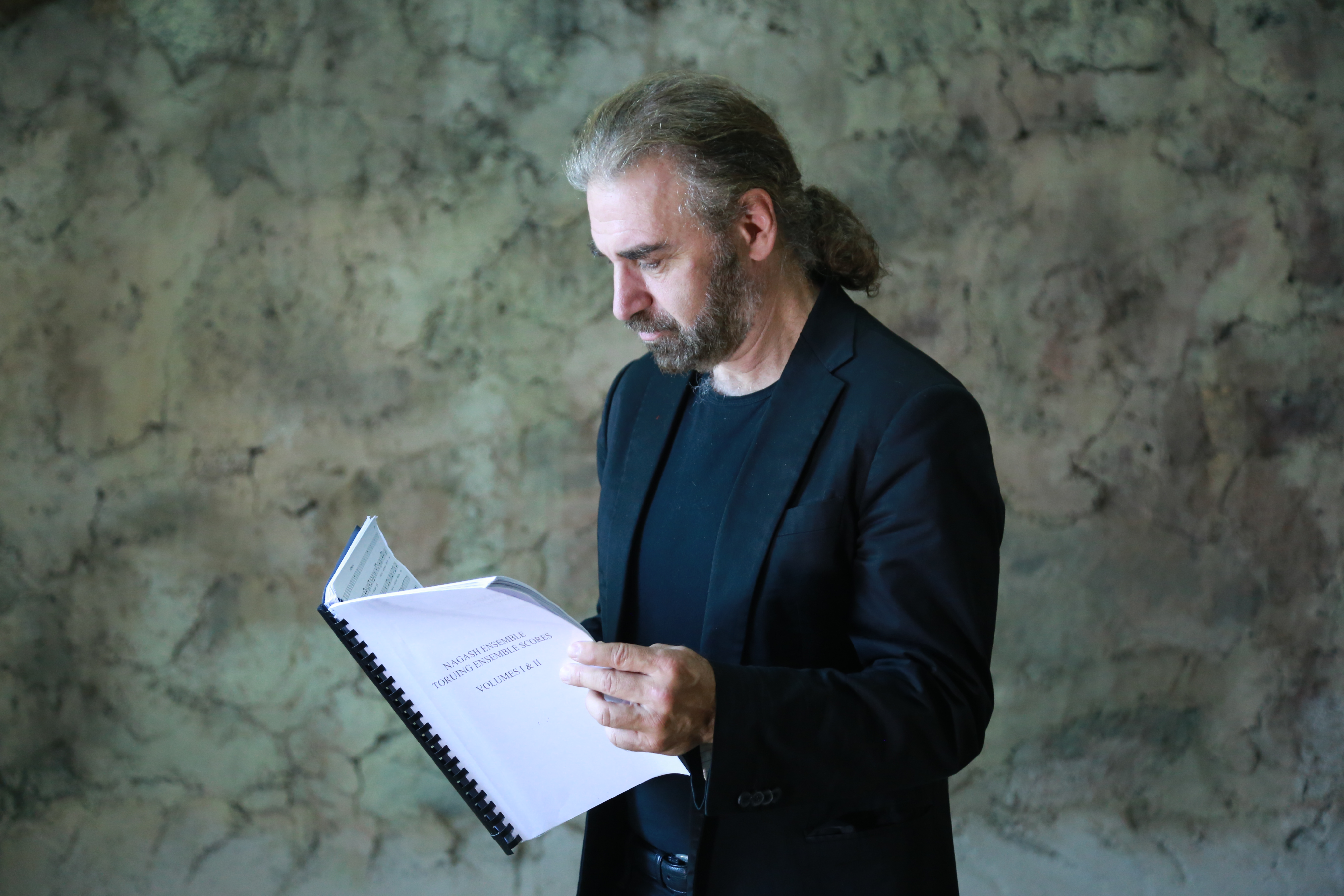 John Hodian is the founder and artistic director of The Naghash Ensemble of Armenia.